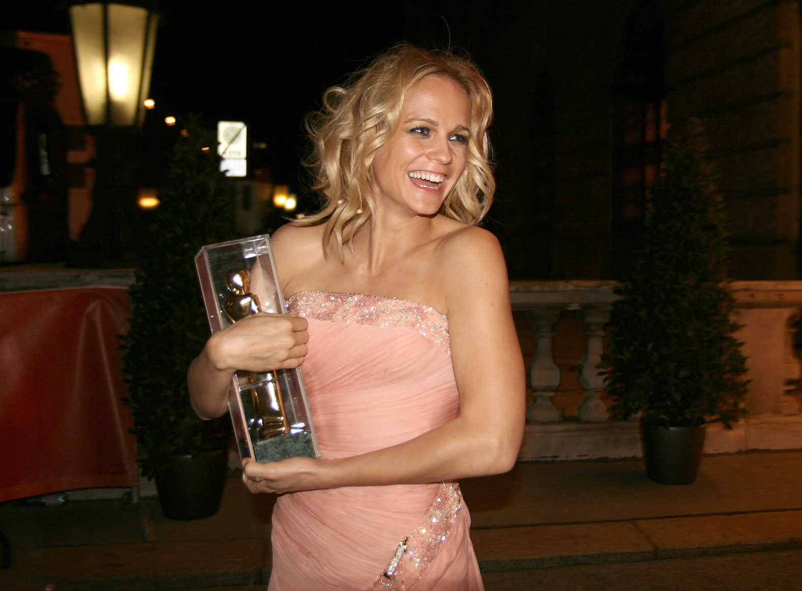 Mirjam Weichselbraun at the Romy TV awards (Hofburg Imperial Palace in Vienna)